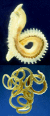 Aspidogastreans Multicalyx elegans (top) and Multicalyx sp. (bottom)